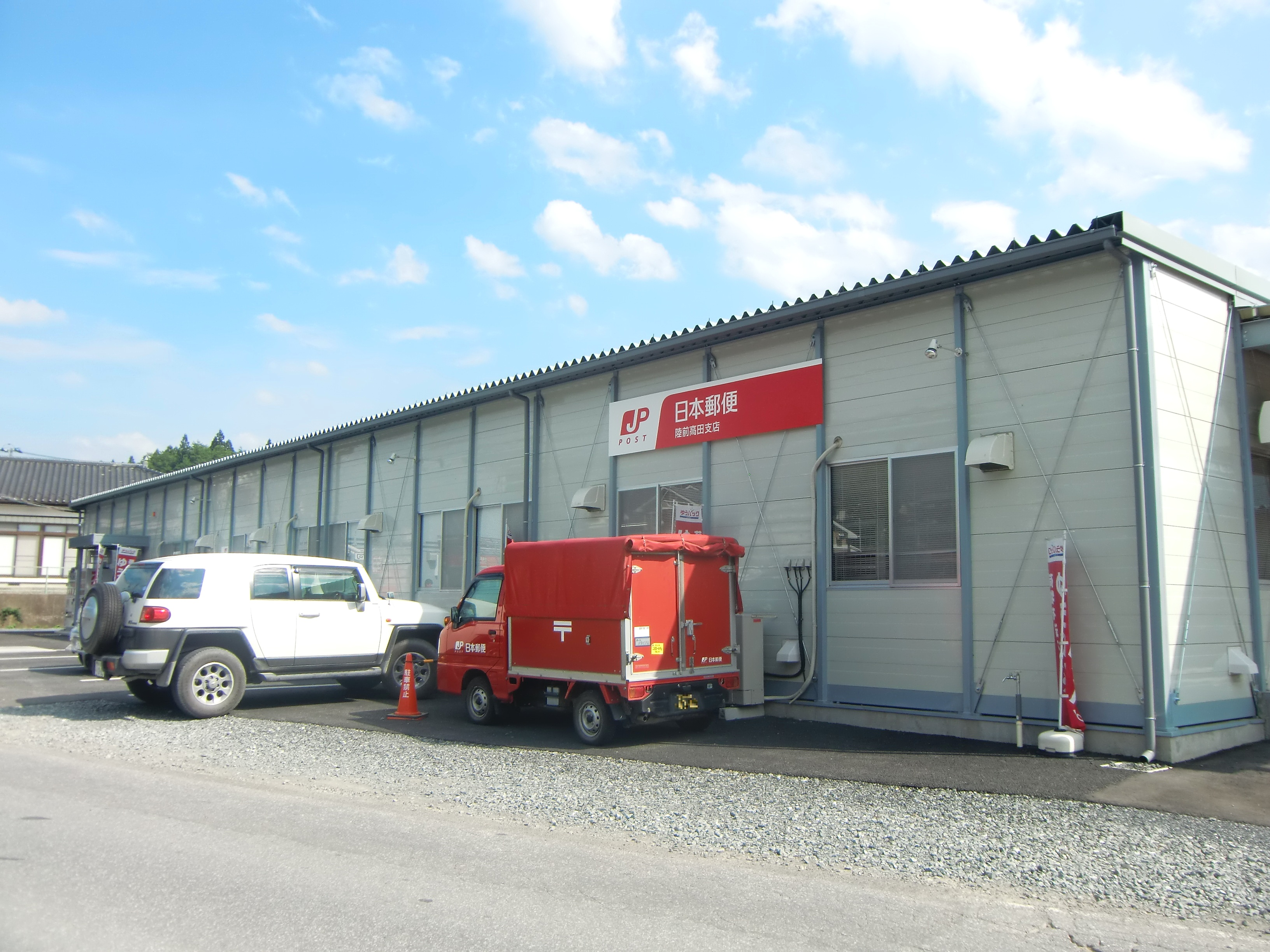 Temporary office of JP Post Rikuzentakata Branch at Takekomachō-azatakinosato 24-12, Rikuzentakata City, Iwate Prefecture, Japan. The office has been in use from 5 October 2011